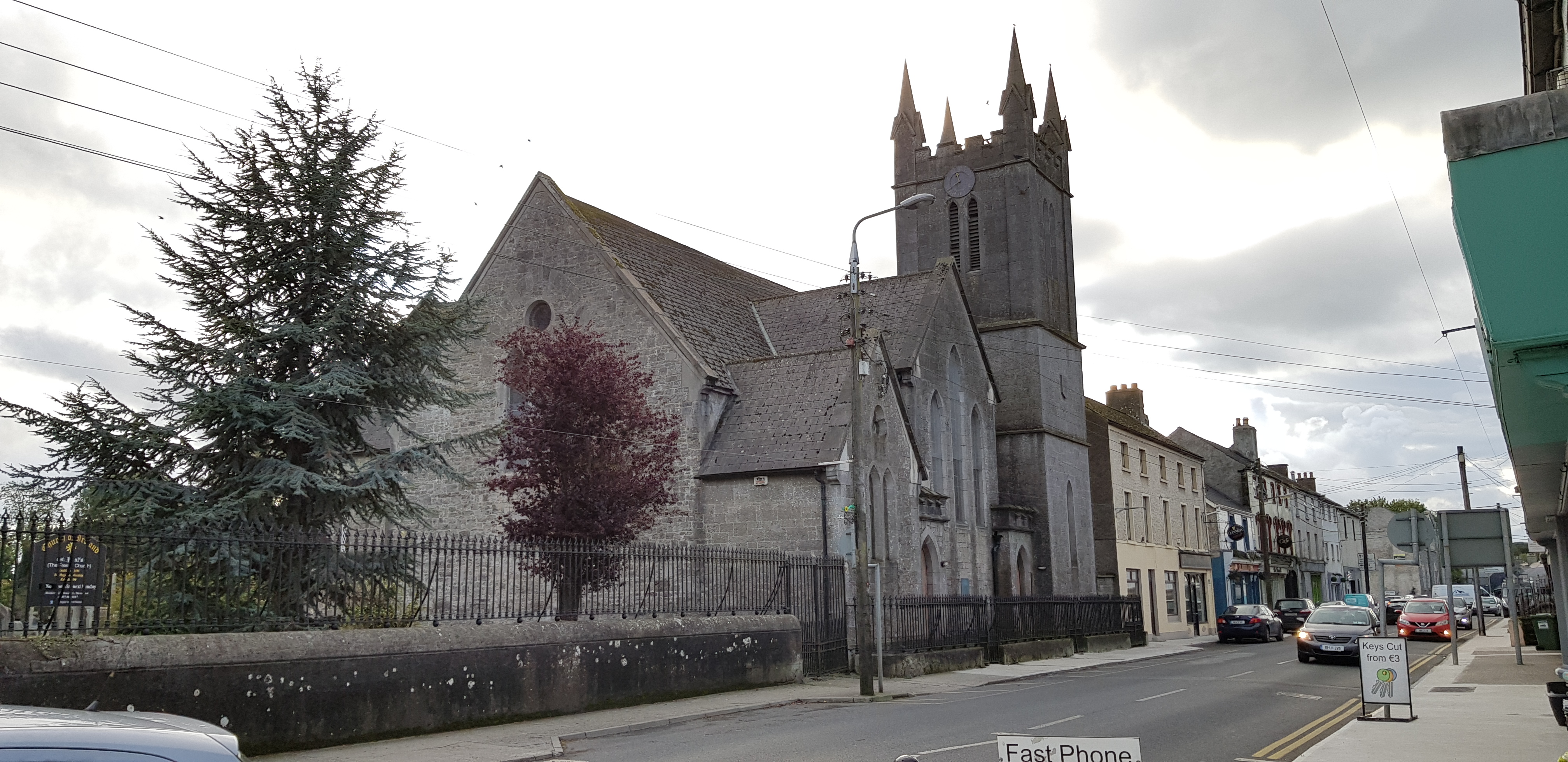 County Laois, St Paul's Church. Wikidata has entry Q55055566 with data related to this item.